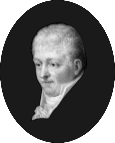 Theodoor Jan baron Roest van Alkemade (1754-1829), deputy mayor of The Hague, member of the States General of the United Netherlands, member of the House of Representatives, member of the Provincial Council North Holland